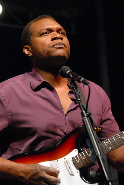 Robert Cray in concert in Austin Texas, March 4, 2007. Photo by Steve Hopson. More information about photographer and more photos at: . Use of this photo requires attribution. Please credit, Steve Hopson Photography, .